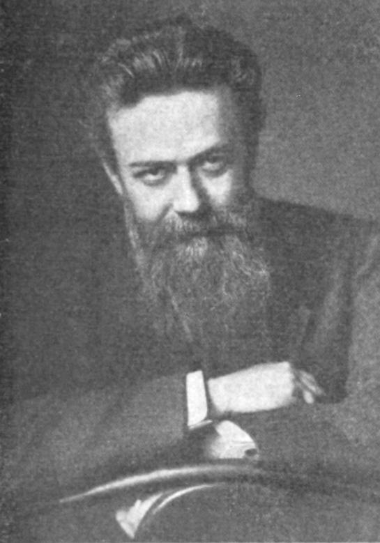 Federico Degetau y González, from p. 316 of Historia de Puerto Rico by Paul Gerard Miller, published by Rand McNally in 1922.